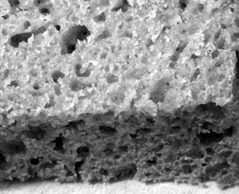 Model for activated carbon. Own work (Anton, 2006)